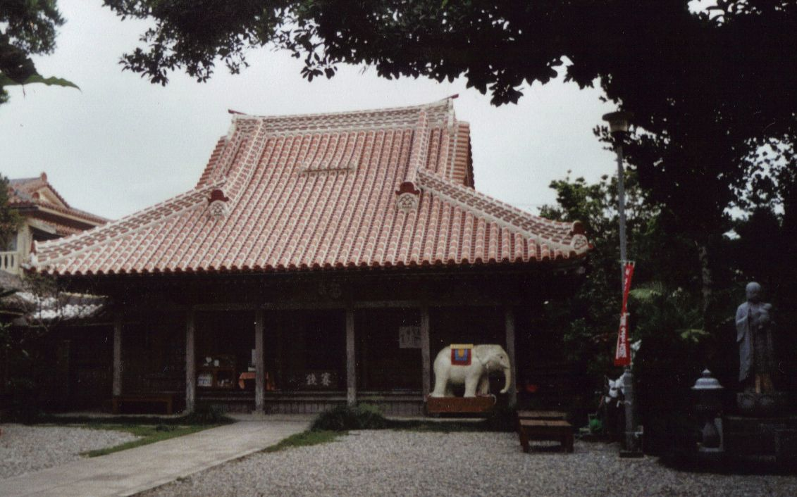 Torin Ji Temple, Ishigaki Town, Ishigaki Island, Okinawa Ken, Japan